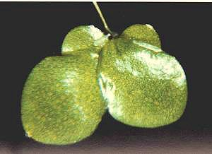 Lemna gibba photographed from above by John W. Cross